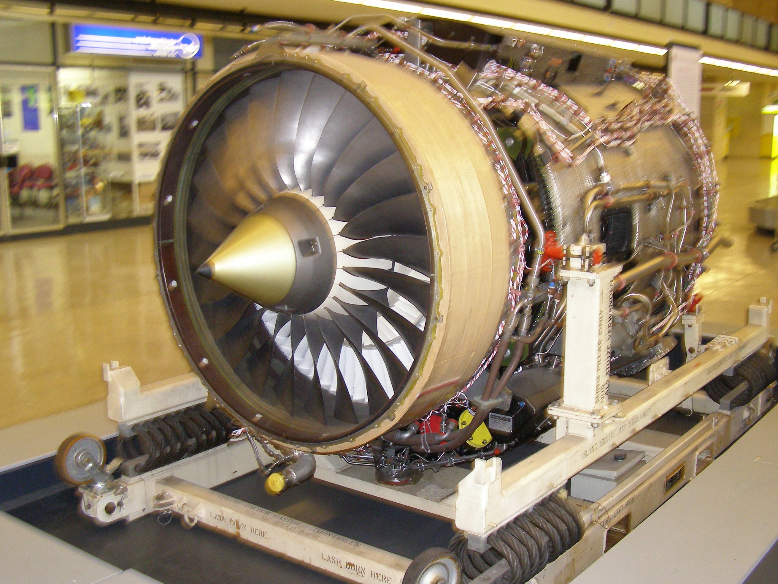 Aircraft engine Rolls-Royce BR710 (photographed in the main hall of the Airport Tempelhof, Berlin)